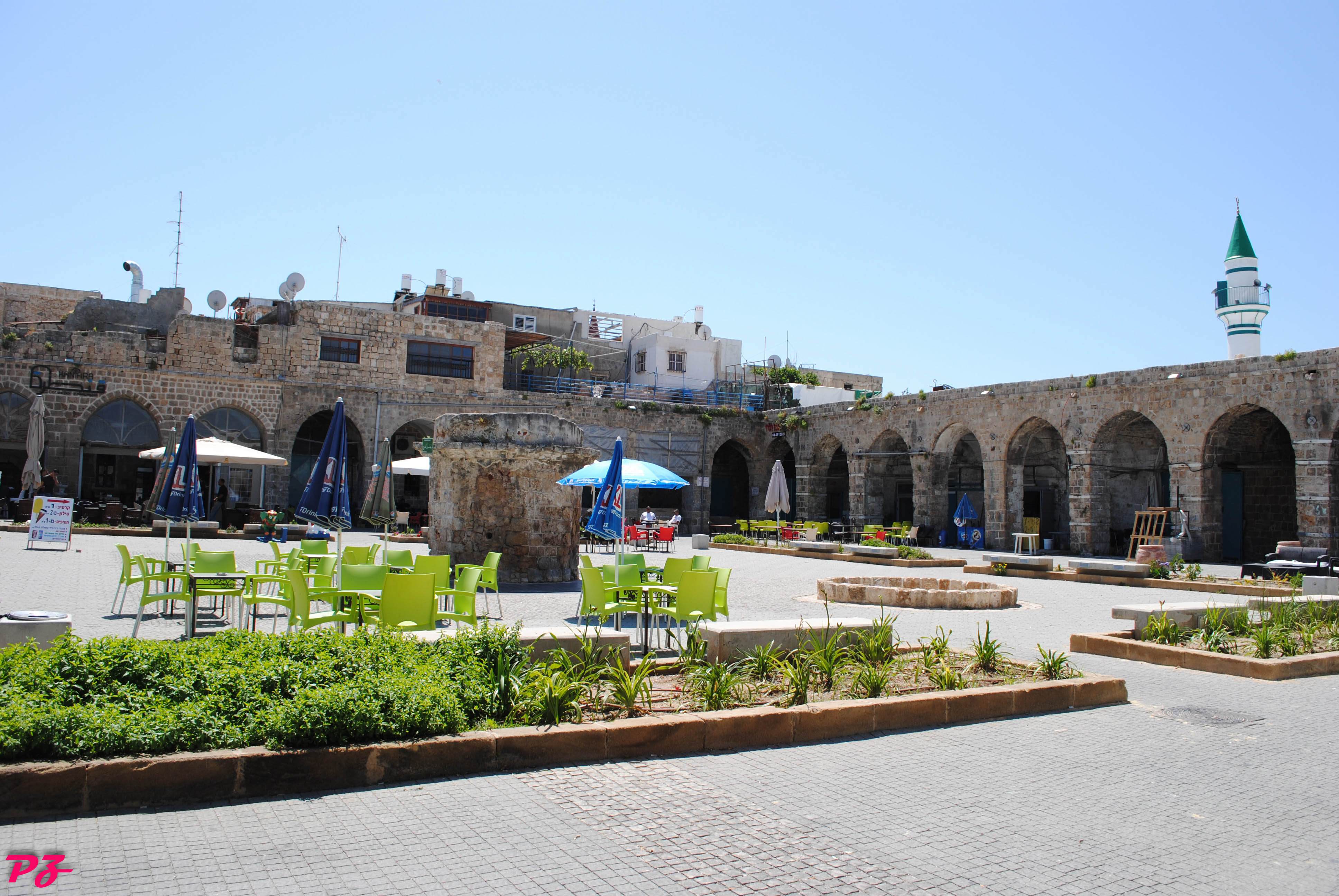 Khan a-Shawarda